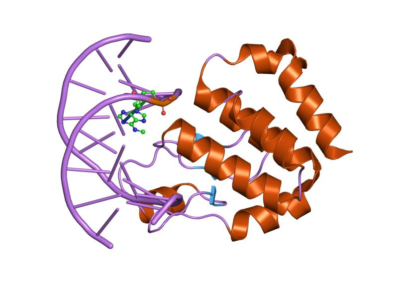 Cartoon representation of the molecular structure of protein registered with 1j3e code.